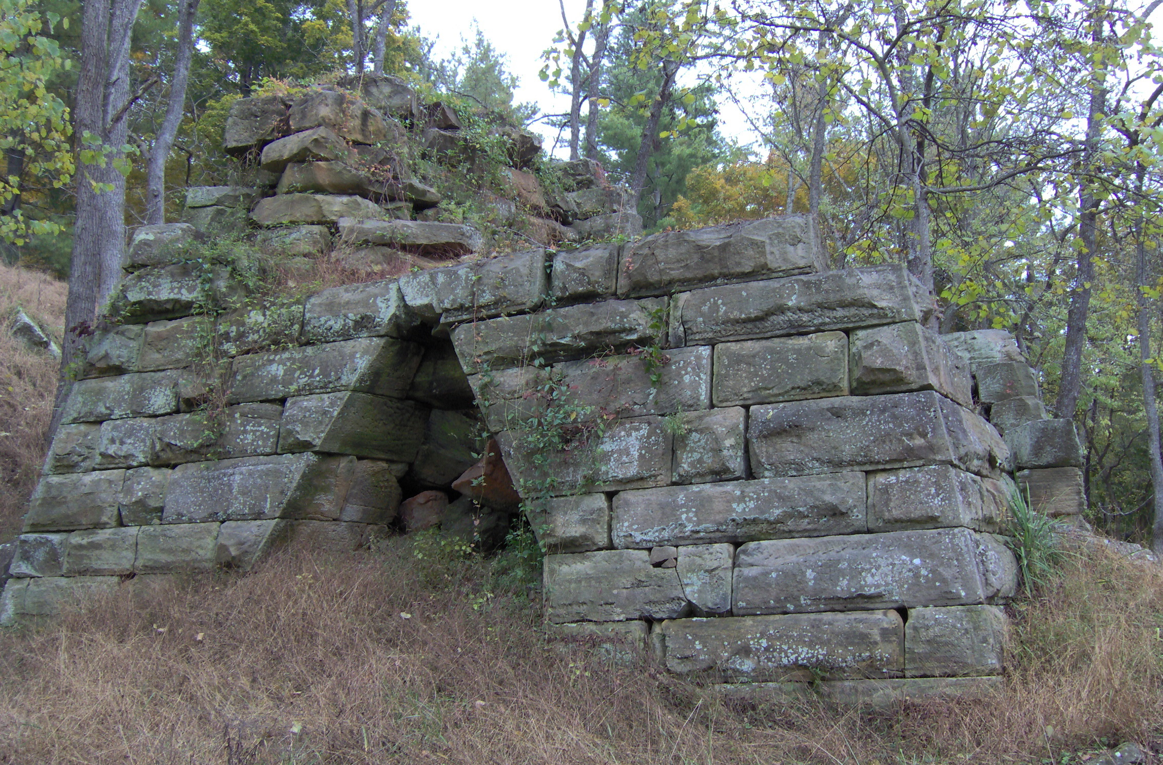 Remaining stone structure of the Buffalo Iron Furnace located in Greenup County, Kentucky in Greenbo Lake State Resort Park.